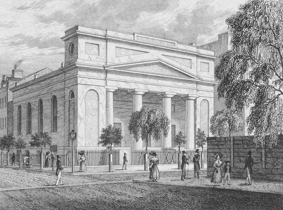 "Plate 13th. [lower picture] Unitarian Church, Mercer St., New York." The Bourne Views of New York. This church was located on the northwest corner of Mercer Street and Prince Street. (Dunlap, David W. From Abyssinian to Zion: A Guide to Manhattan's Houses of Worship (New York: Columbia University Press, 2004). Map E, [E86]. ISBN 0231125437)